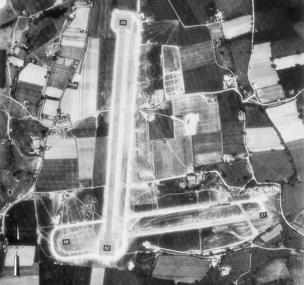 Aerial photograph of Bisterne Airfield, England.